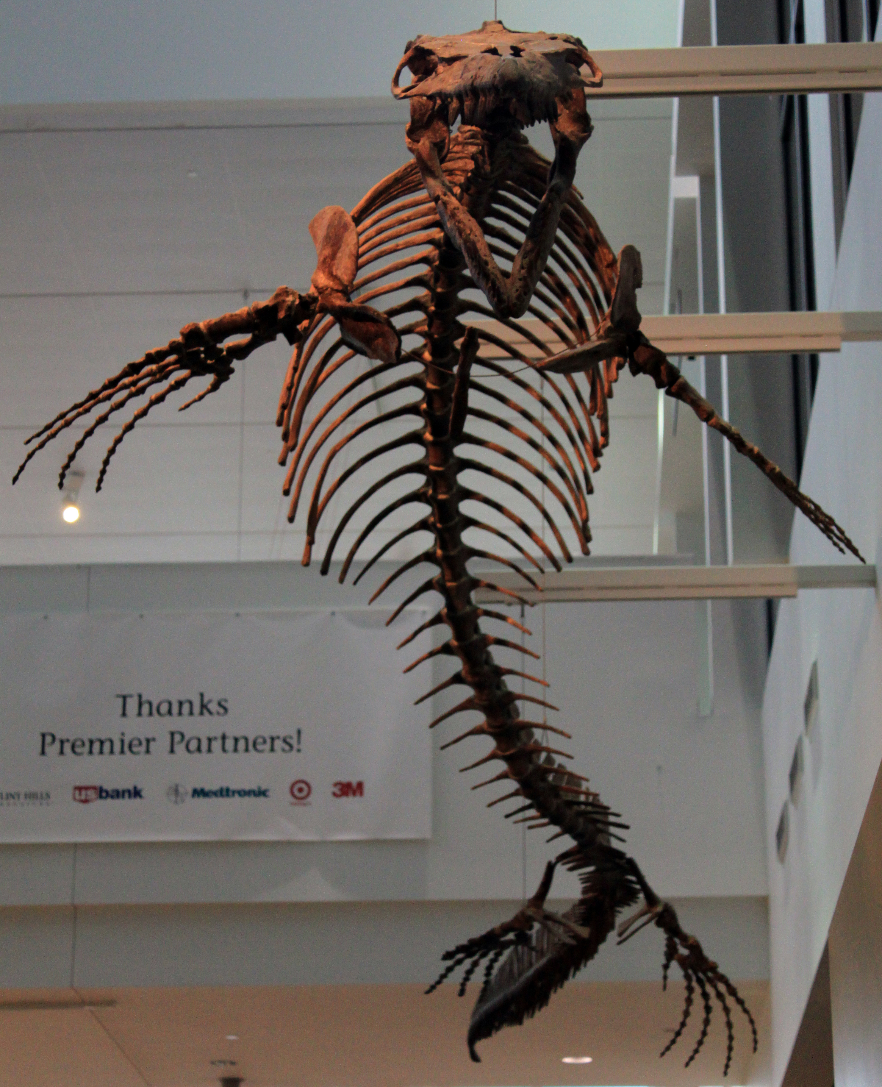 Taken at the Minnosota Science Museum: Dinosaurs and Fossils Gallery. Creative Commons licensed photo by . Please feel free to take and reuse for any purpose.